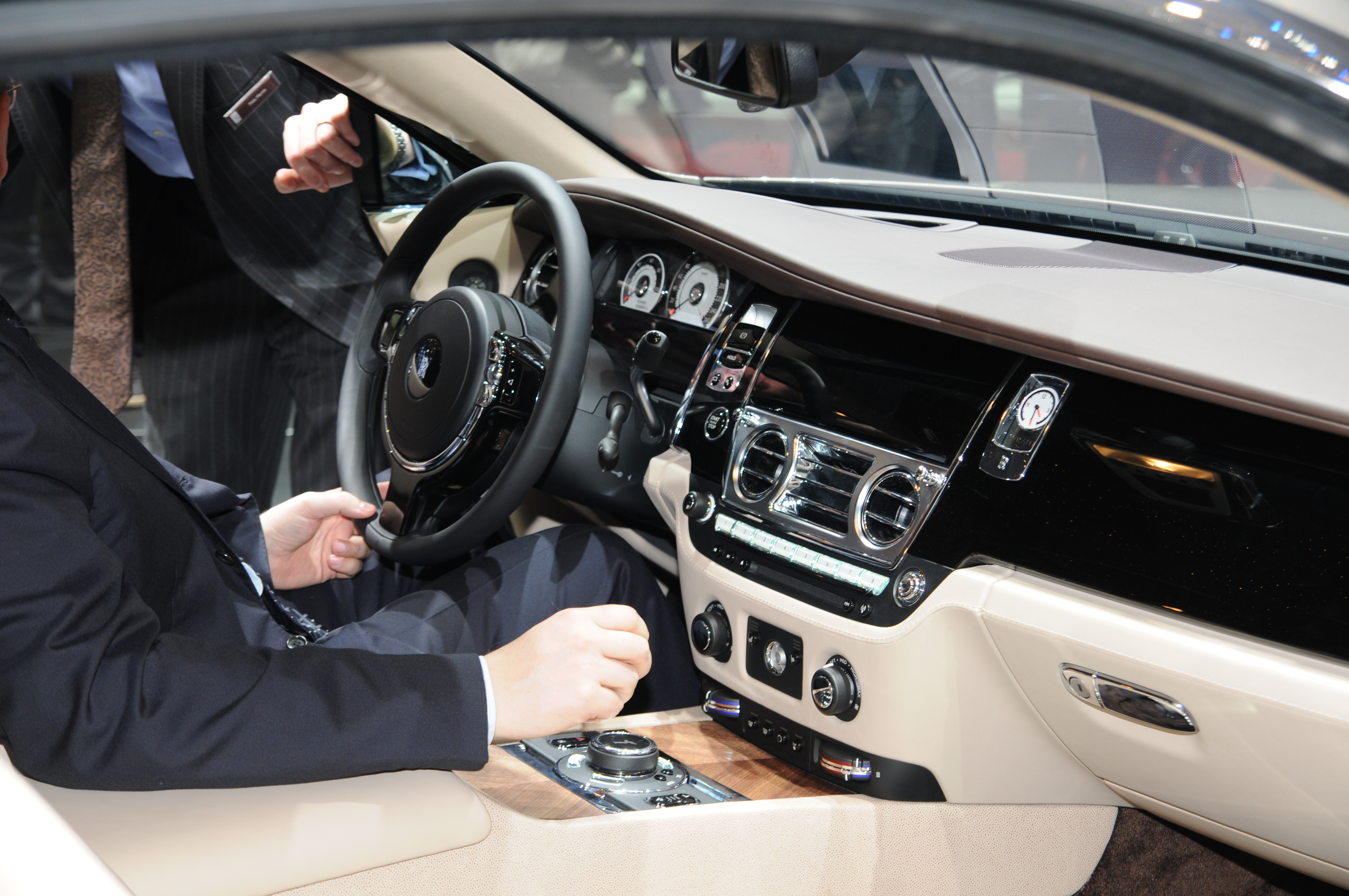 Geneva Motor Show 2013 (photos taken on the first press day)